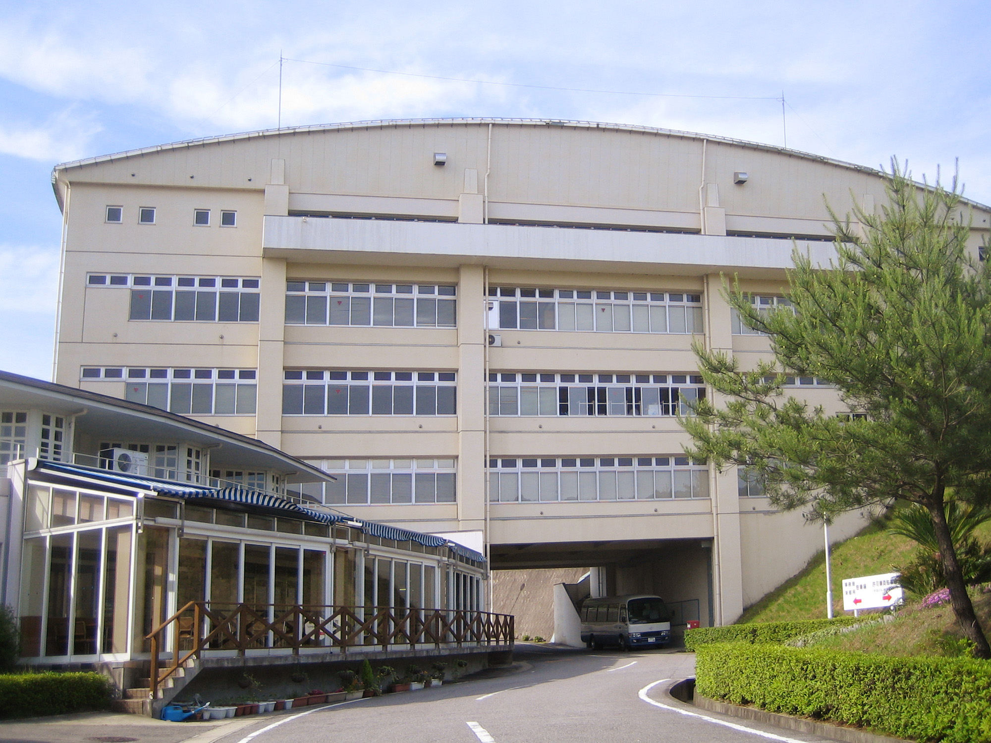 人間環境大学。愛知県岡崎市University of Human Environments (人間環境大学), located in Okazaki, Aichi, Japan